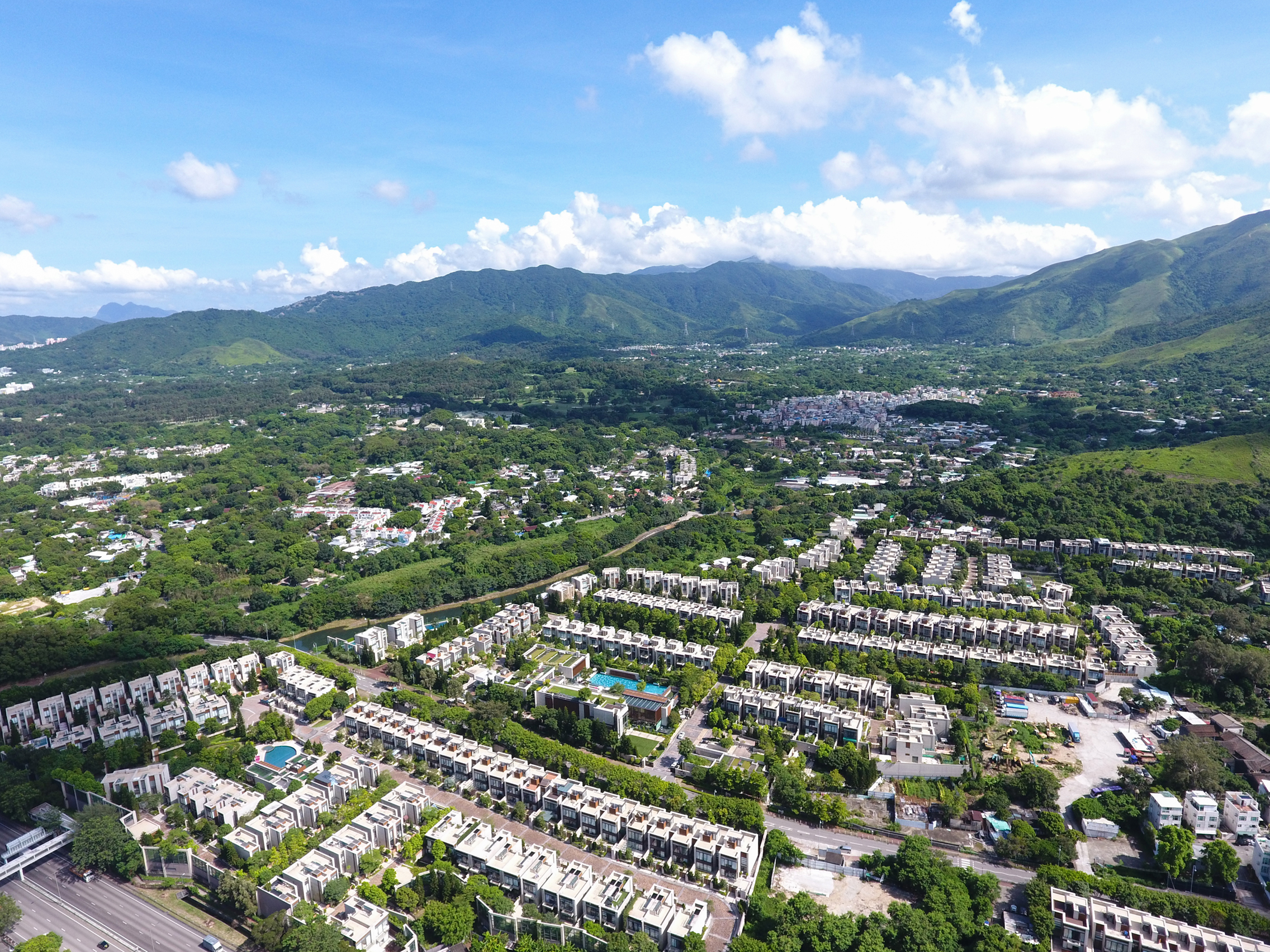 Kwu Tung South